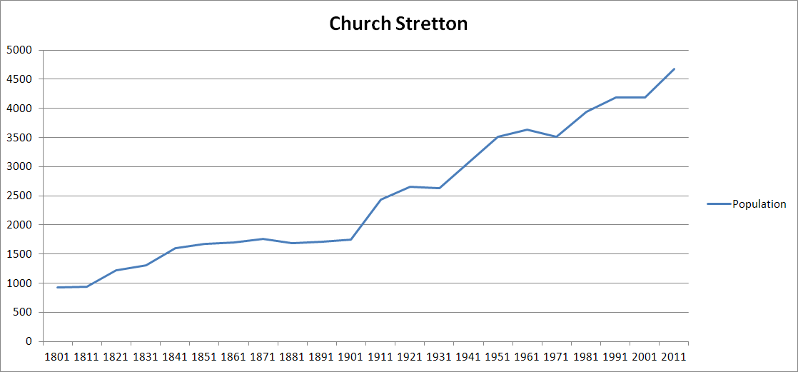 Population of the parish of Church Stretton in Shropshire, England, from 1901 to 2011, as measured by official national censuses.